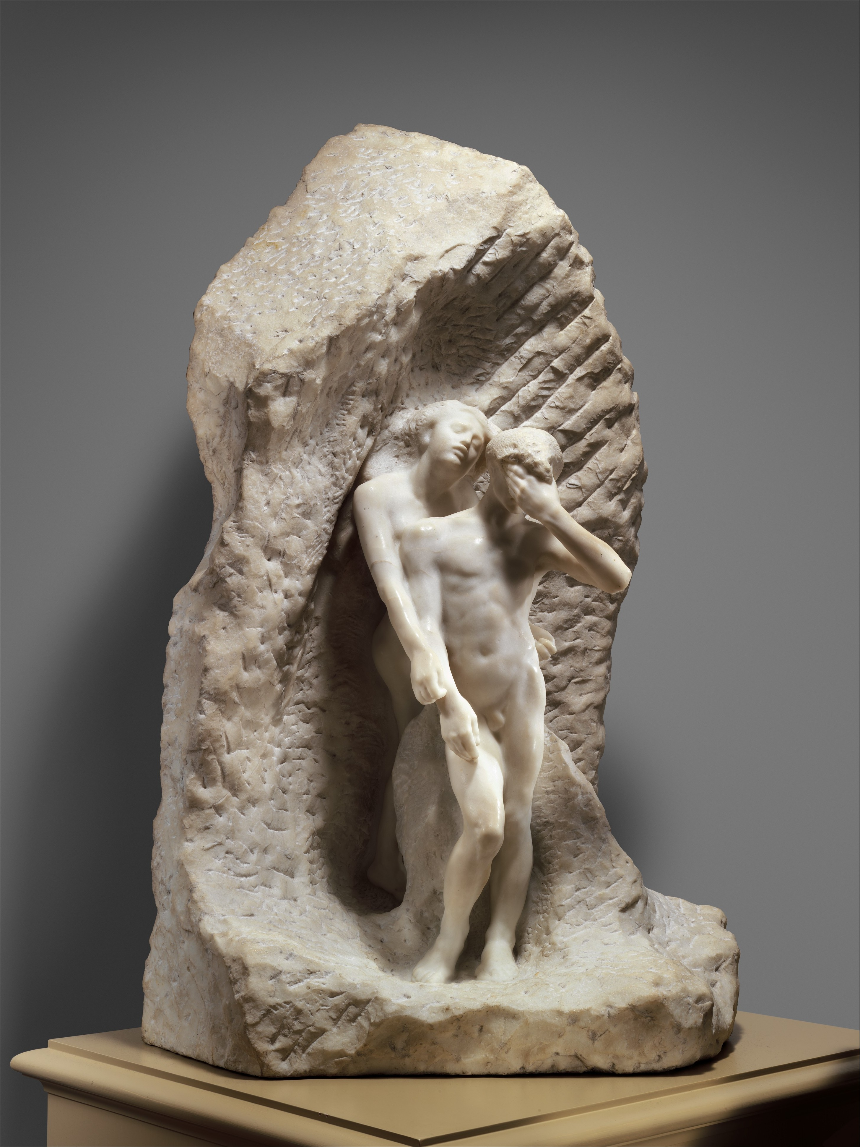 French, Paris; Group; Sculpture